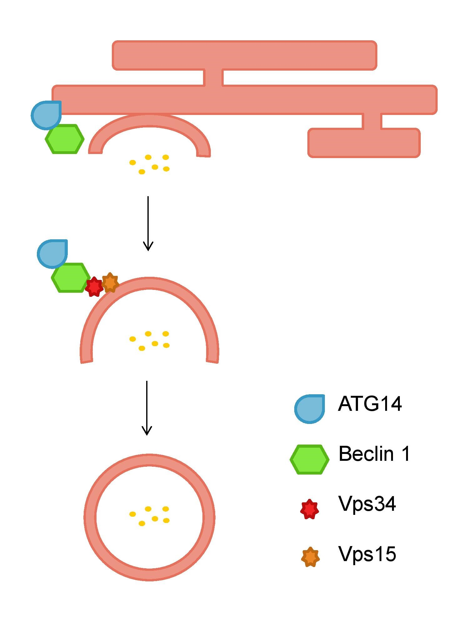 ATG14 protein and the PIK3C3 complex in vesicle nucleation of autophagosomes from omegasome, to isolation membrane to autophagosome.